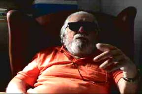 photo taken by me (Nick Cooper)